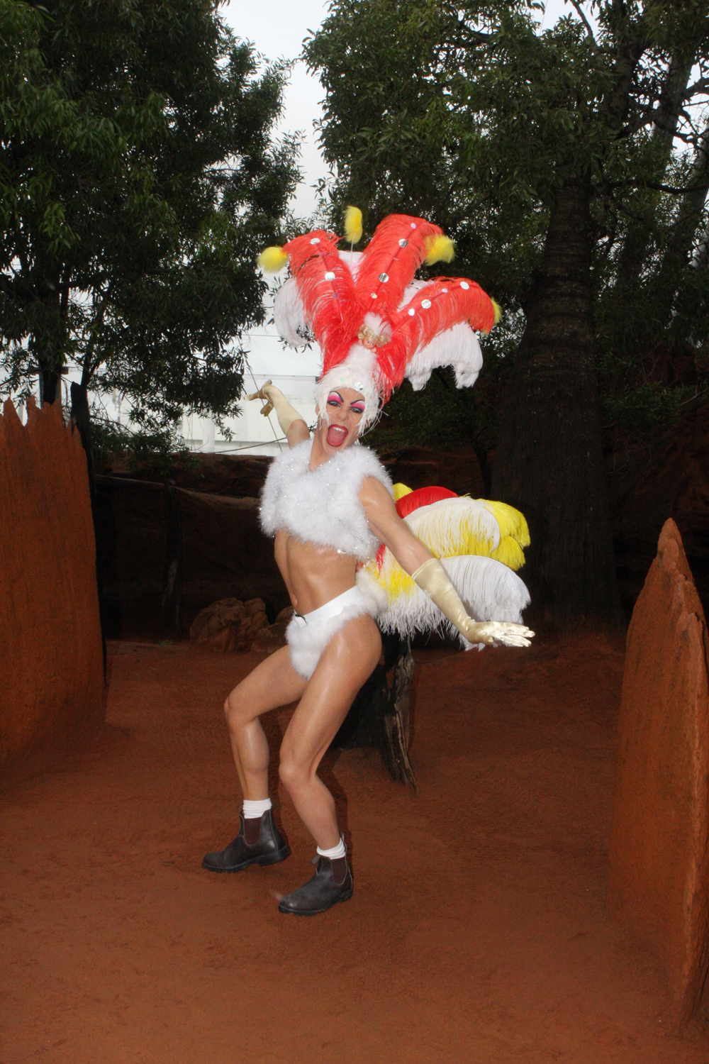 Madame Tussauds Sydney Madame unveils Guy Pearce wax figure. Pearce’s wax figure was flamboyantly dressed as his most well-known character, Felicia Jollygoodfellow.